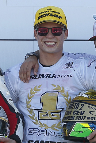 Eric Granado on the podium of the 2017 CEV Moto2 Valencia II race.